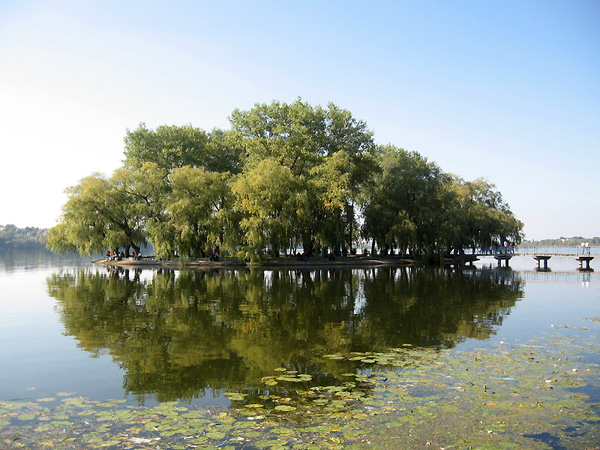 Kohannia Island and Ternopil Pond.